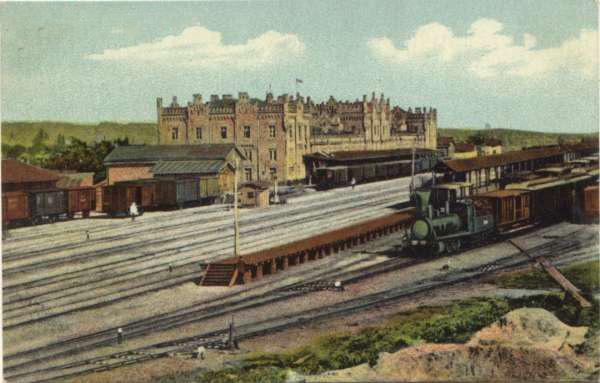 Kiev's main railway station, 19th century postcard